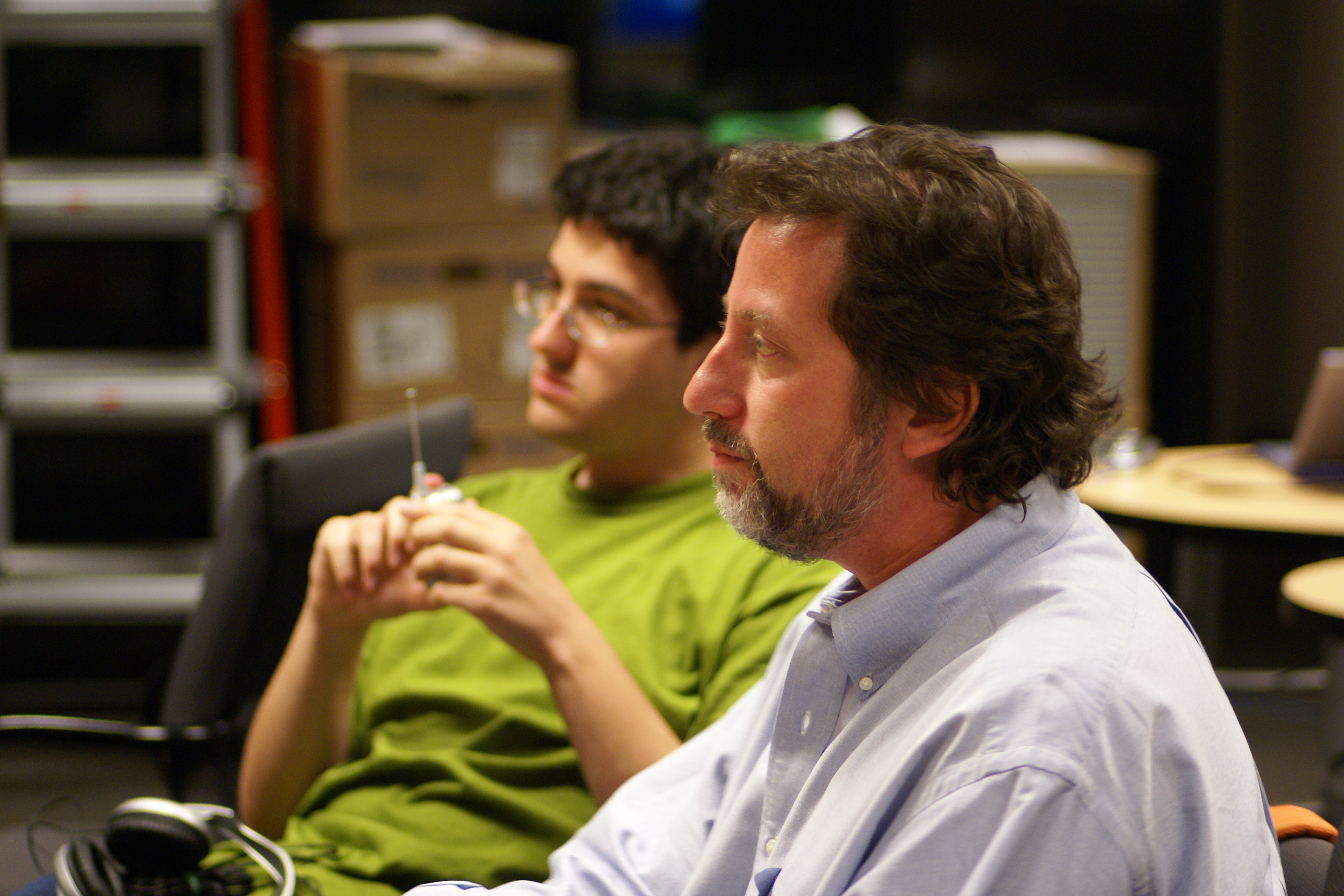 Jordan Weisman, October 2, 2006, Los Angeles, California, US